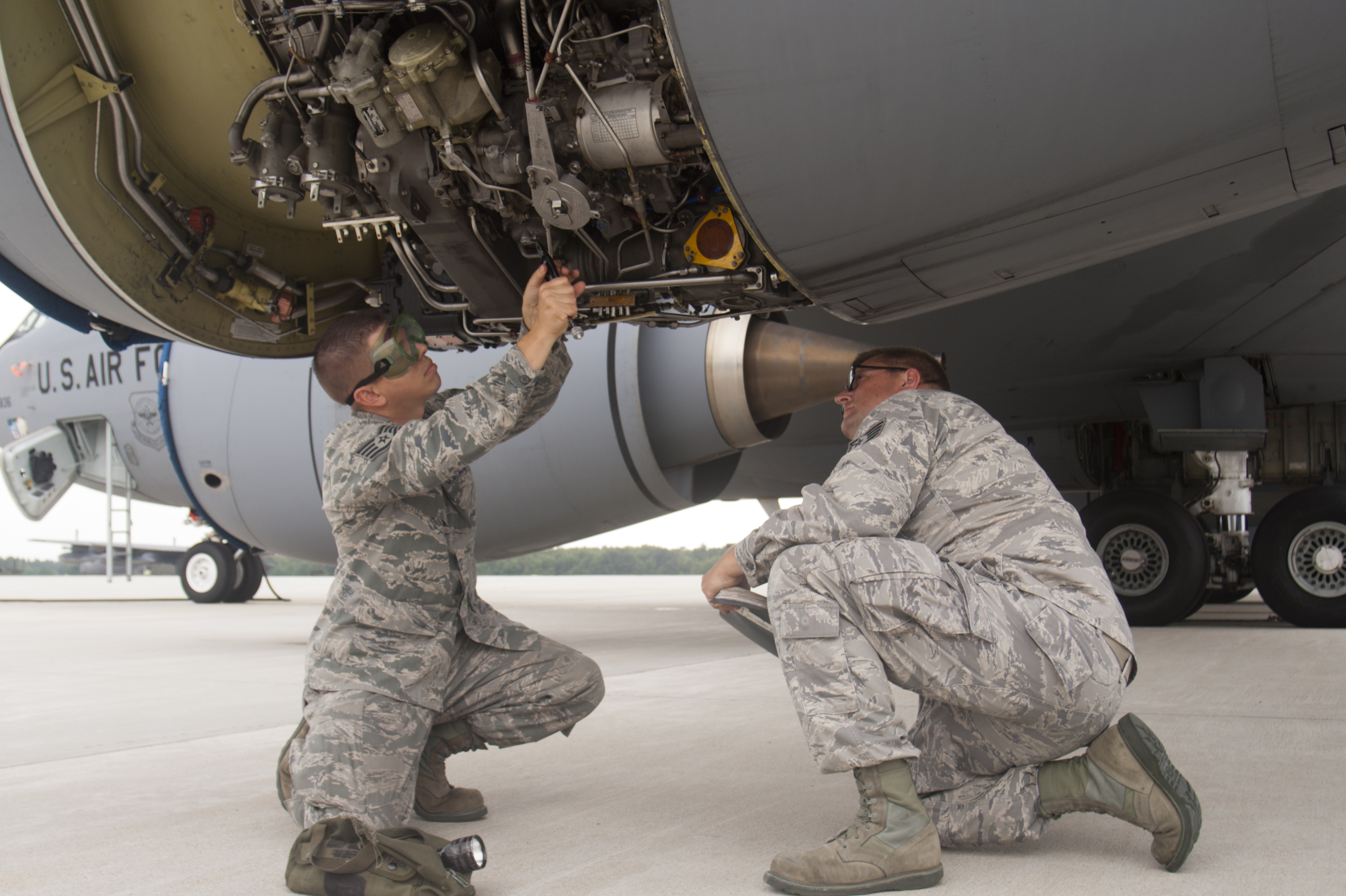 Working together on a sixty-hour safety inspection of a KC-135R engine, crew chief Staff Sgt. David Fell (left) secures a fuel filter bolt according to a technical order manual as chief Tech. Sgt. John Seguin observes, September 3, 2013, Pease Air National Guard Base, N.H. Seguin is assigned to the 157th Air Refueling Wing and Fell is assigned to the 64th Air Refueling Squadron.